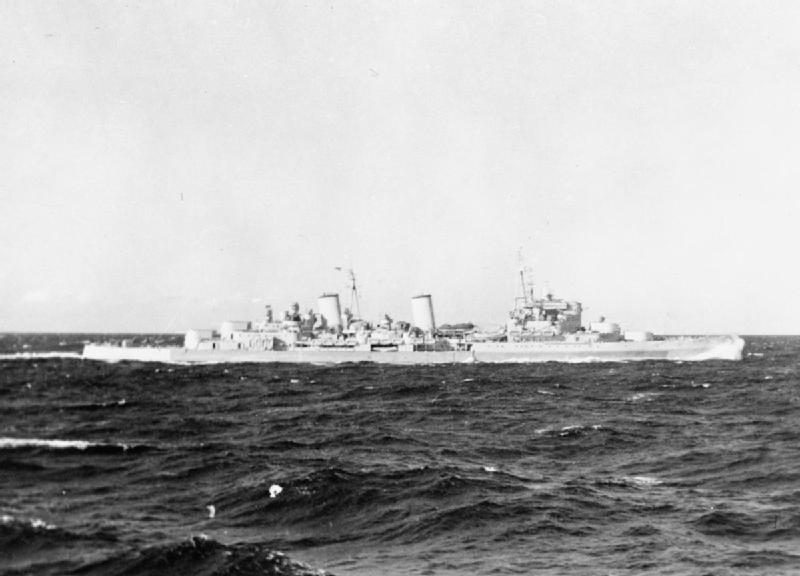 HMS Belfast during the Second World War British Pacific Fleet 1945: HMS BELFAST photographed in the South Atlantic from HMS BERWICK.